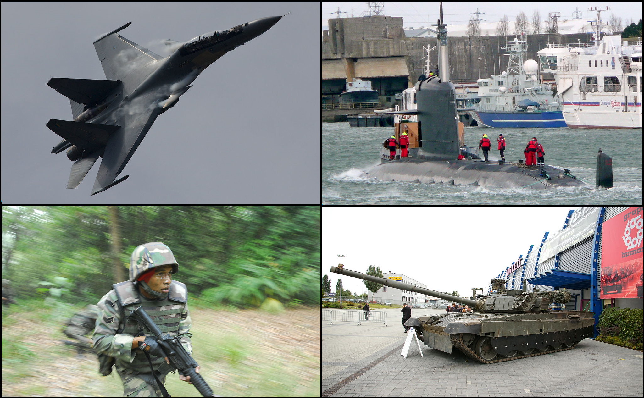 Compilation of Scorpene submarine, PT-91M tank, Malaysian Army paratrooper, Su30mkm, of the Malaysian Armed Forces